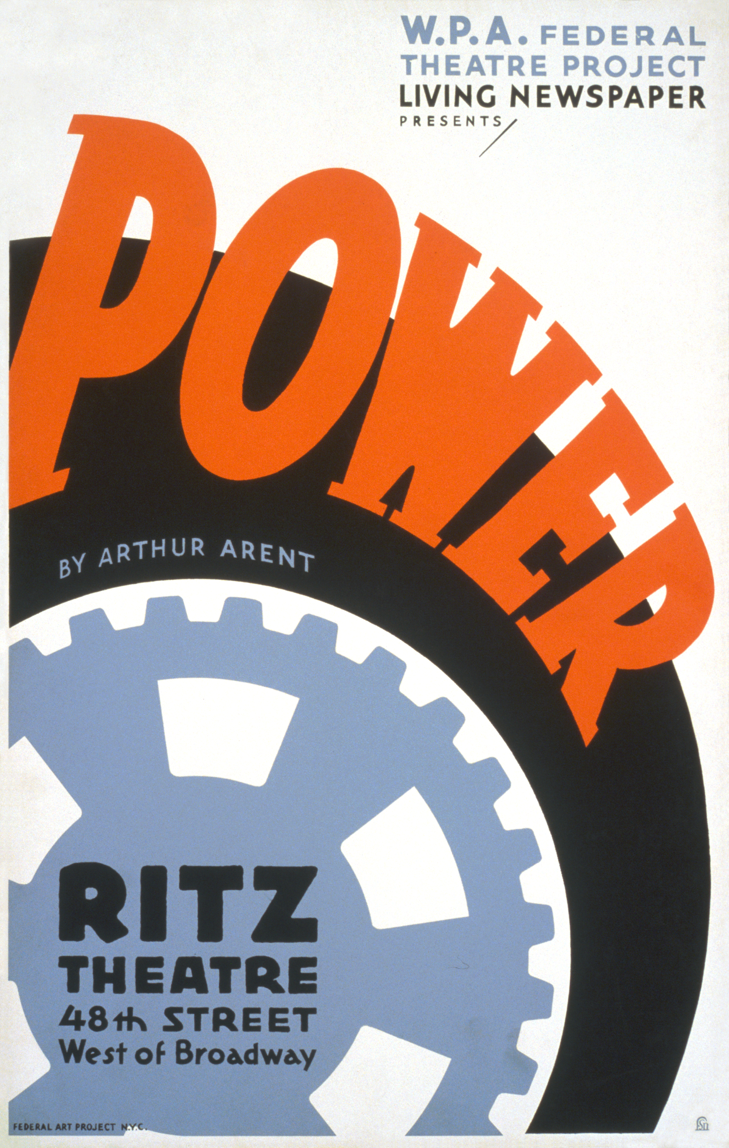 Silkscreen poster for Power, a Living Newspaper play by Arthur Arent produced by the Federal Theatre Project